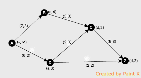 Slika 1.4